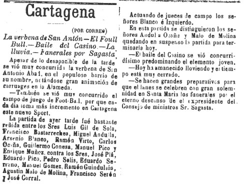 Press release from the Spanish newspaper El Diario de Murcia, about the celebration of a football match during a verbena in the neighborhood of San Antonio Abad on January 17, 1903. The cutting reflects the first documented football match in the city of Cartagena.